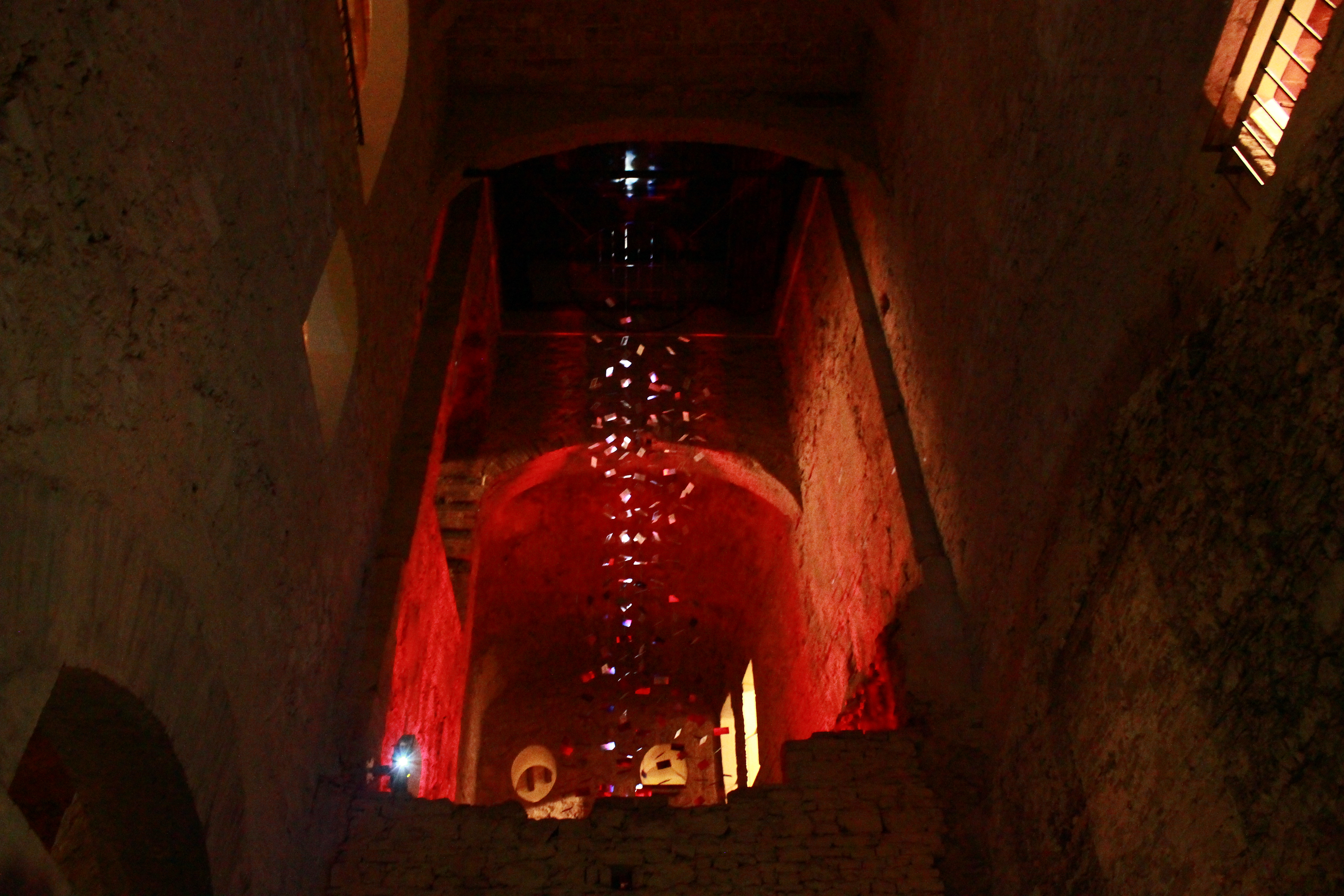 MAGMA Follonica